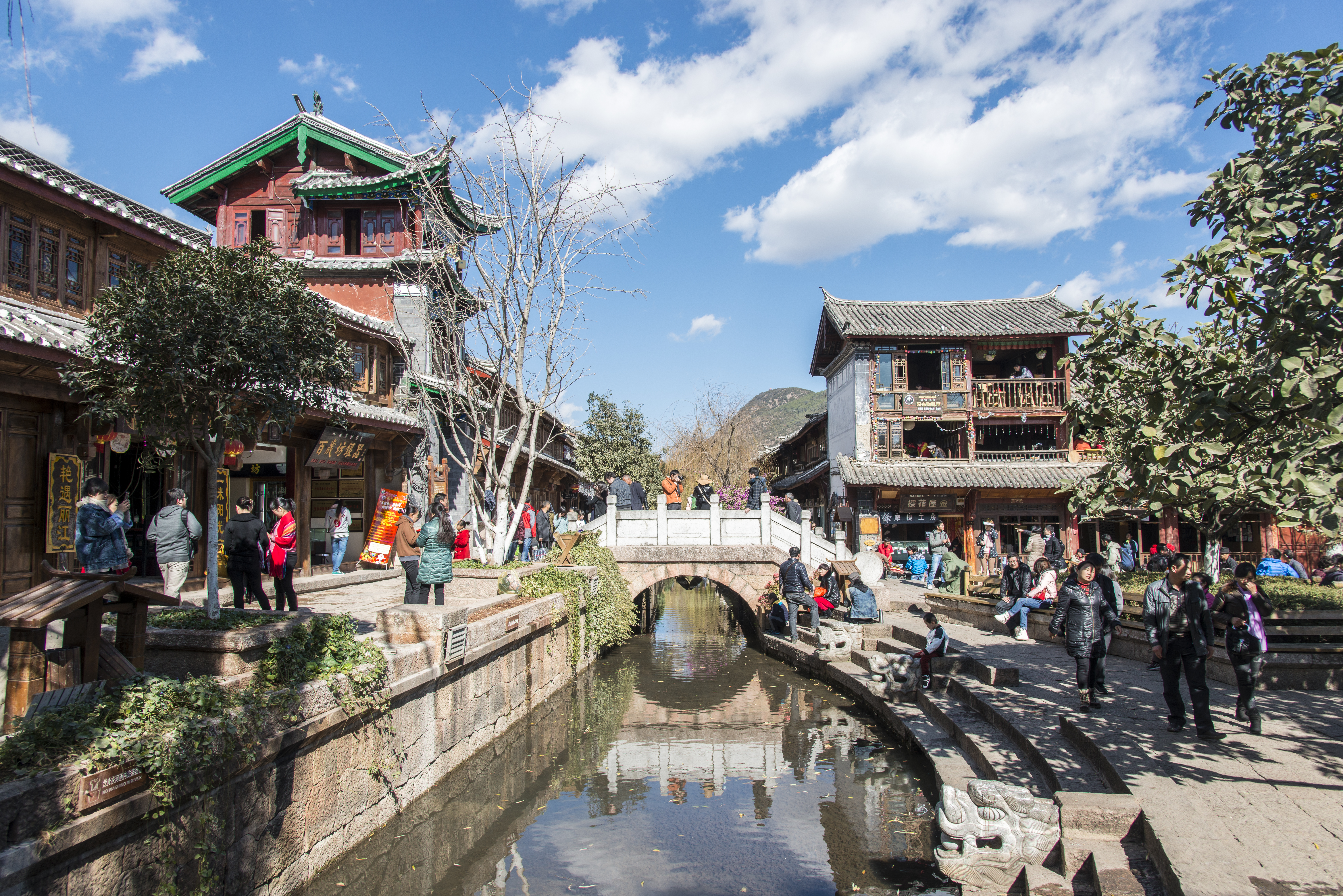 lijiang old town yunnan china 2012 unesco world heritage site